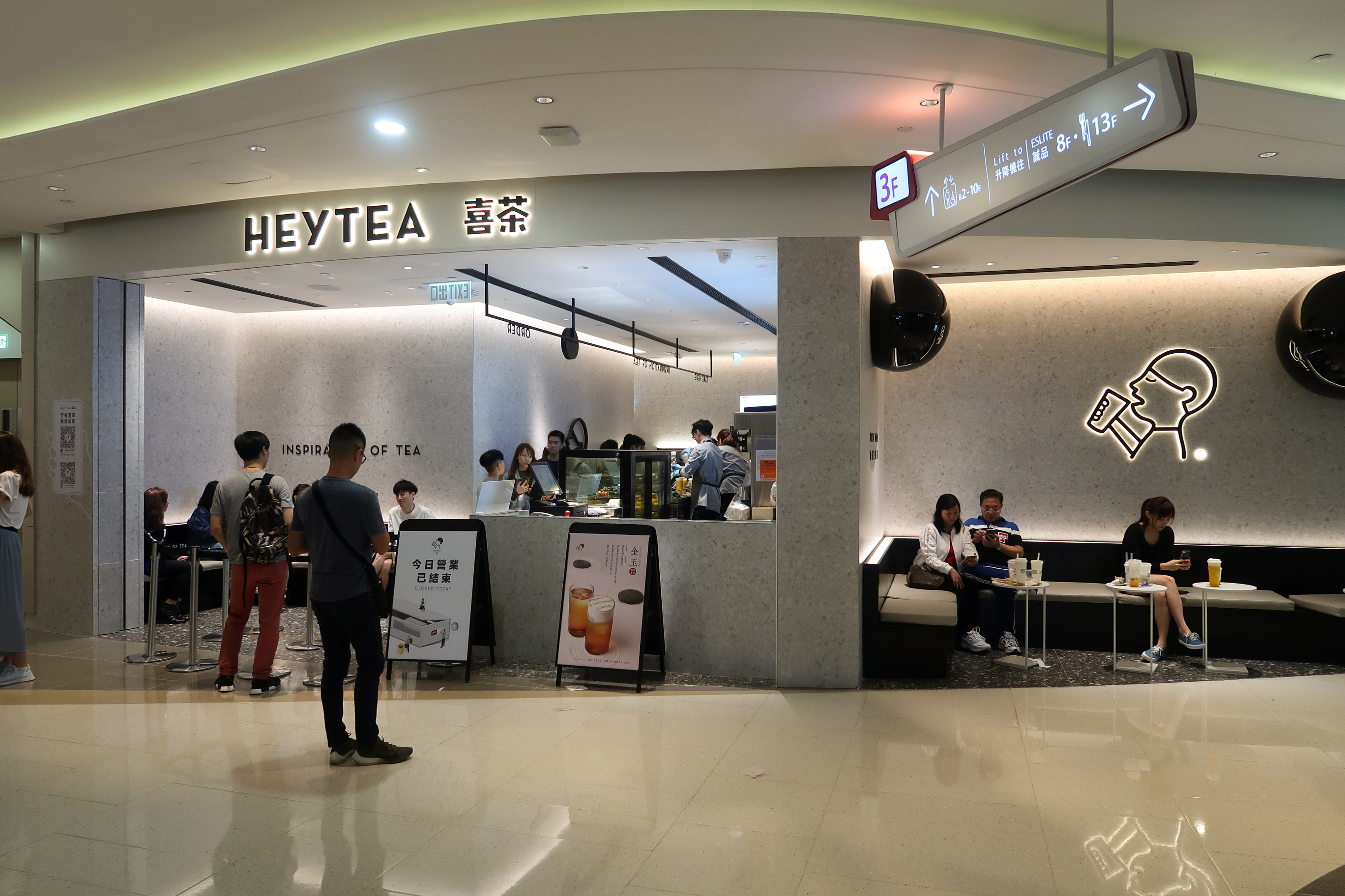 Hey Tea in Hysan Place